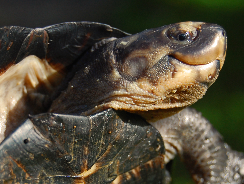 The Smiling Terrapin Siebenrockiella crassicollis named Suhar. From Java, Indonesia.